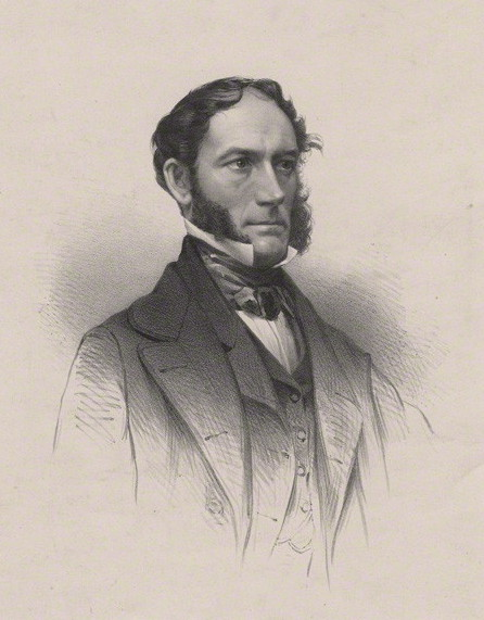 Portrait of Sir Charles Hotham, by James Henry Lynch, printed by Day & Son